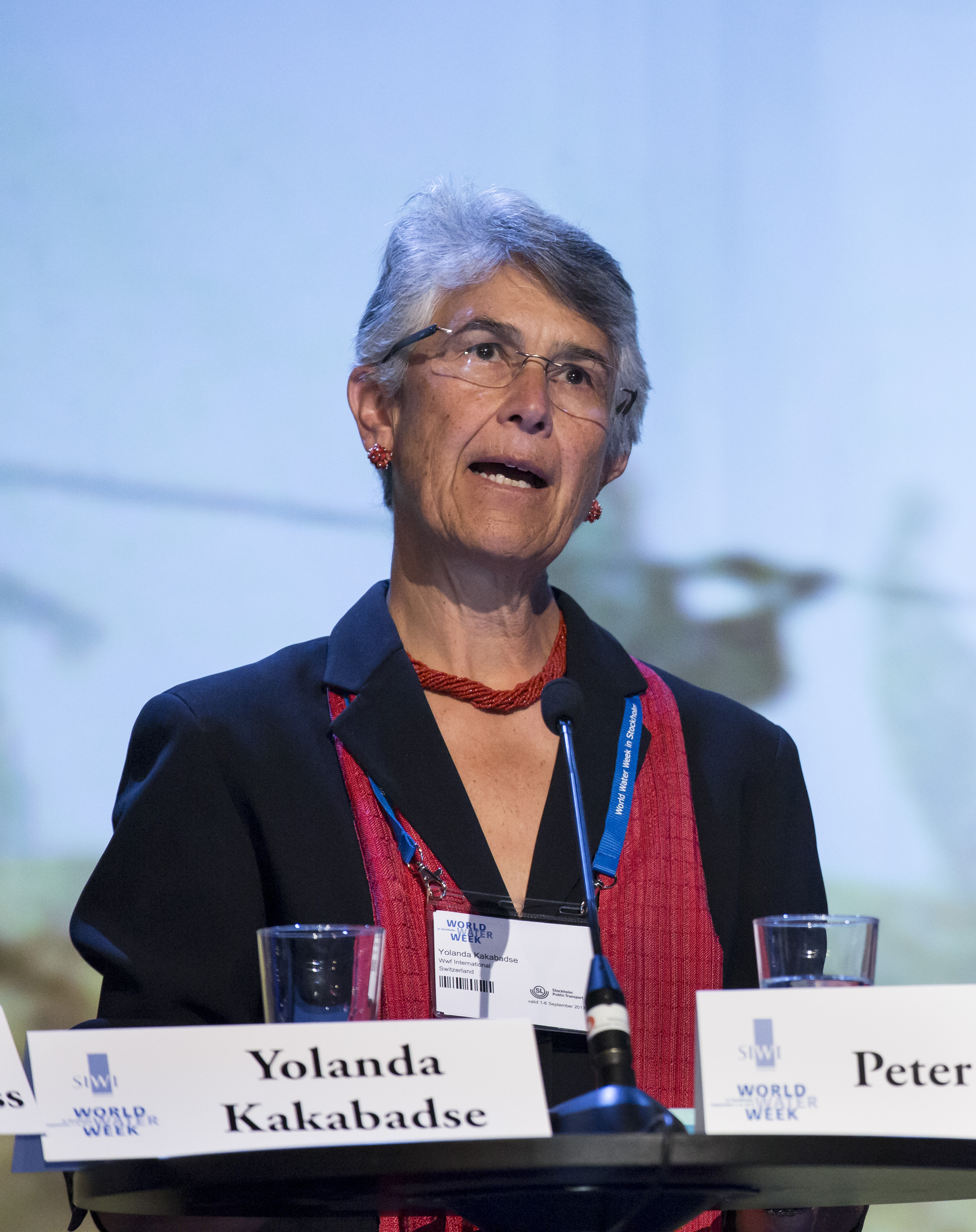 Yolanda Kakabads, at the 2013 World Water Week (opening plenary). On Monday 1 September 2013 (photo by Thomas Henrikson). President, World Wide Fund for Nature (WWF)